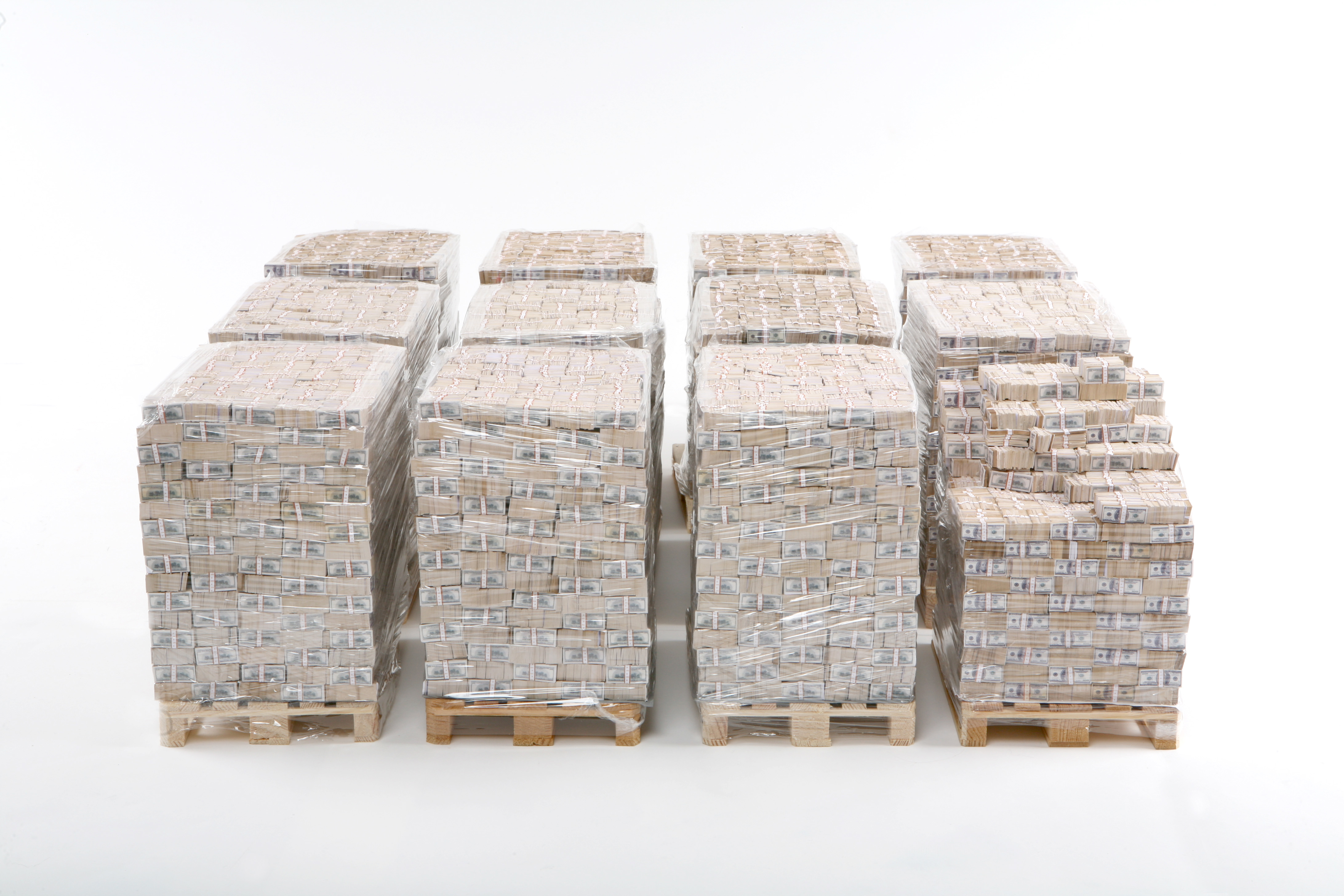 One Billion Dollar Artwork